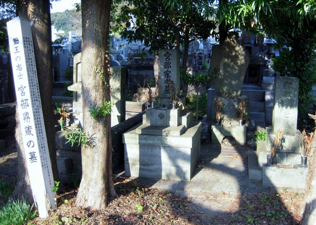 Grave of Miyabe Teizo at Omine Cemetery in Kumamoto City, Japan